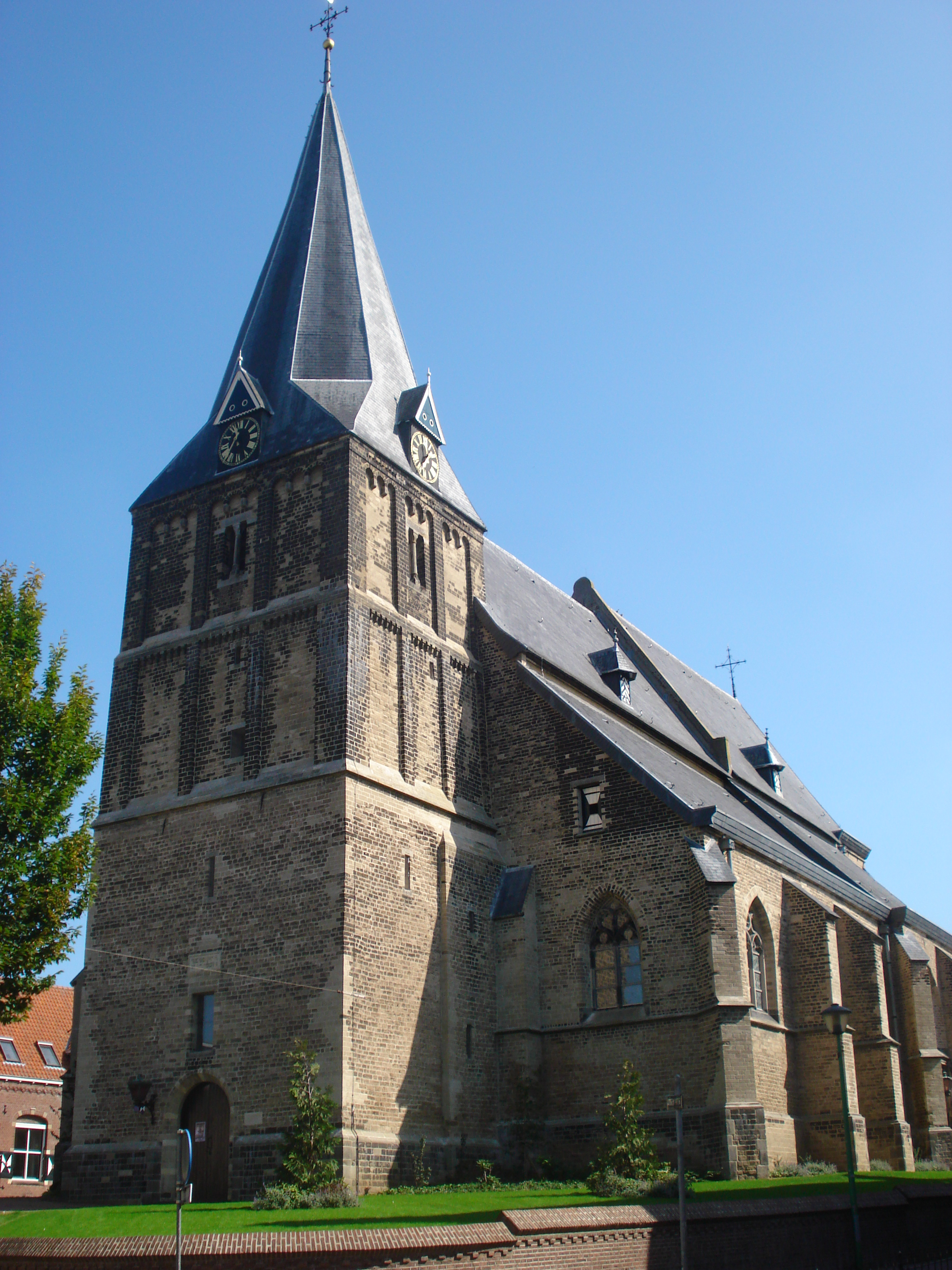 Aalten (Gld, NL) former R.K.Helena church, now dutch reformed